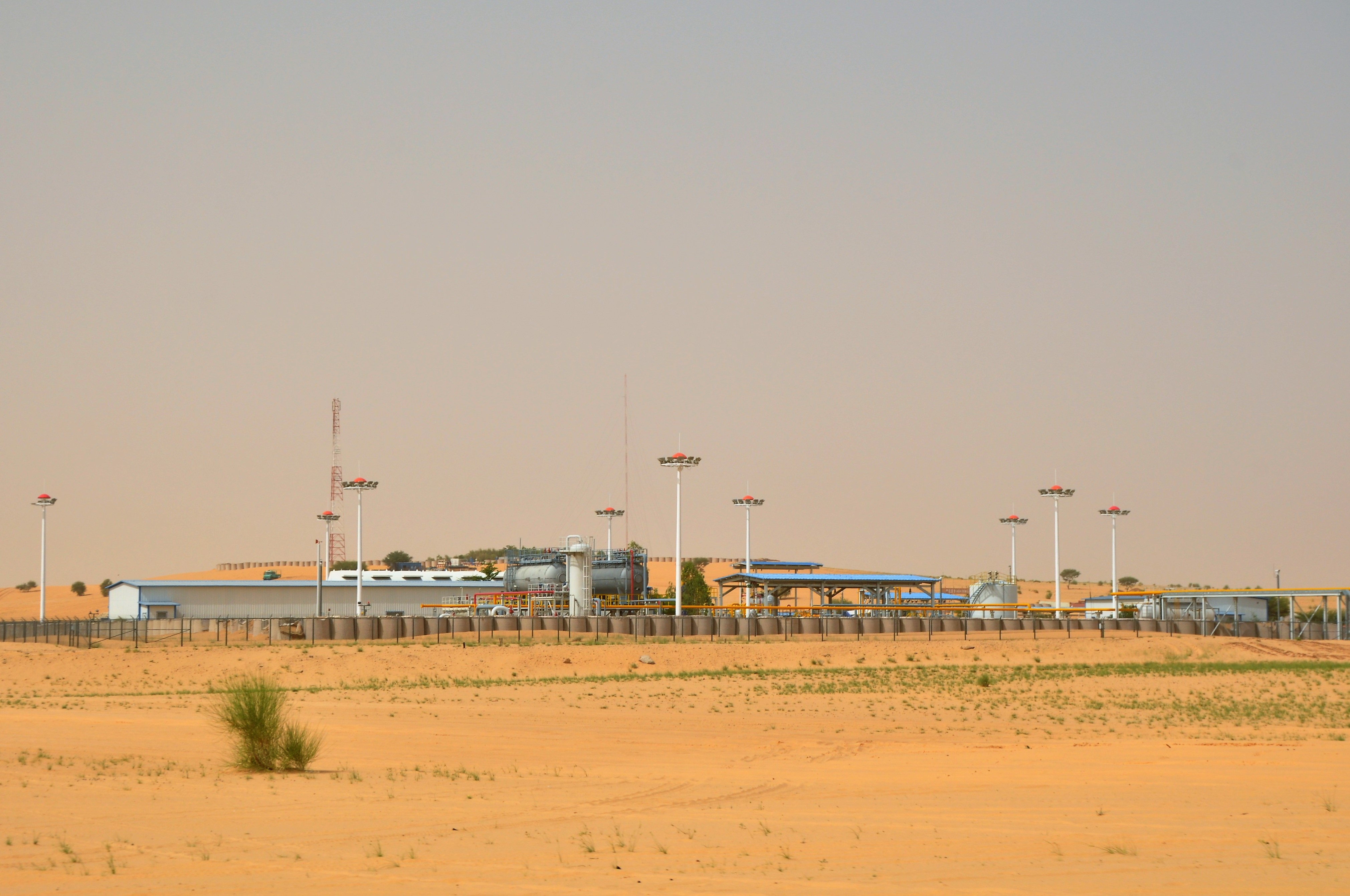 Oil installations of China National Petroleum Corporation Niger (CNPC-Niger SA) in the Agadem block, two kilometers north of the hamlet of Melek (Rural commune of N'Gourti, N'Guigmi department, Diffa region), Niger.